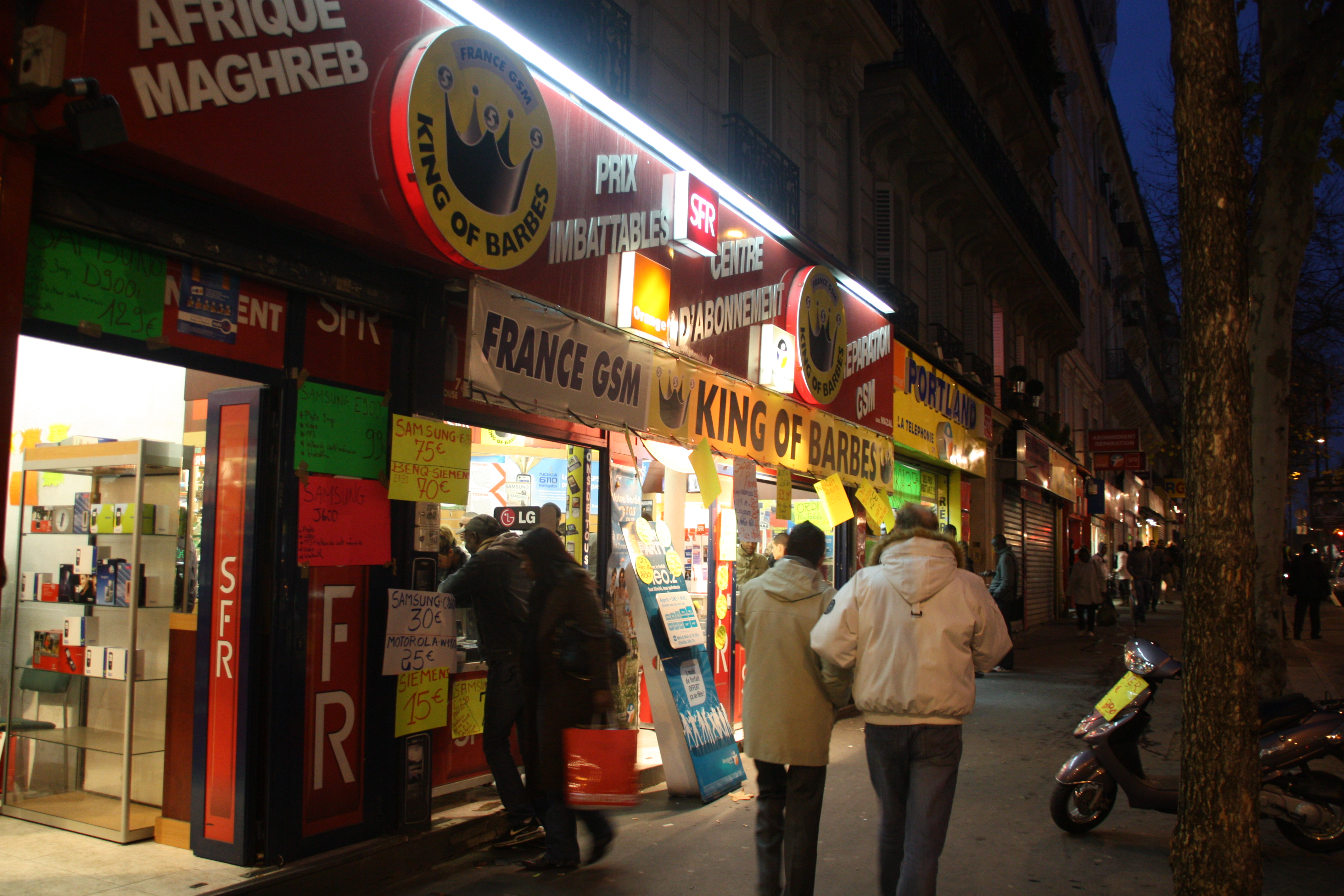 A mobile telephony shop. Boulevard Barbès in the 18th arrondissenent of Paris